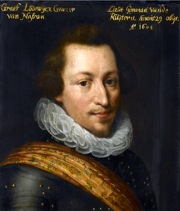 Portrait of Louis Gunther of Nassau (1575–1604). Part of the Leeuwarden series, a series of portraits of military officials from the Eighty Years' War as well as members of the House of Orange-Nassau, first documented in 1633 in the Stadhouderlijk Hof (Stadholder's Court) in Leeuwarden (see Object history).